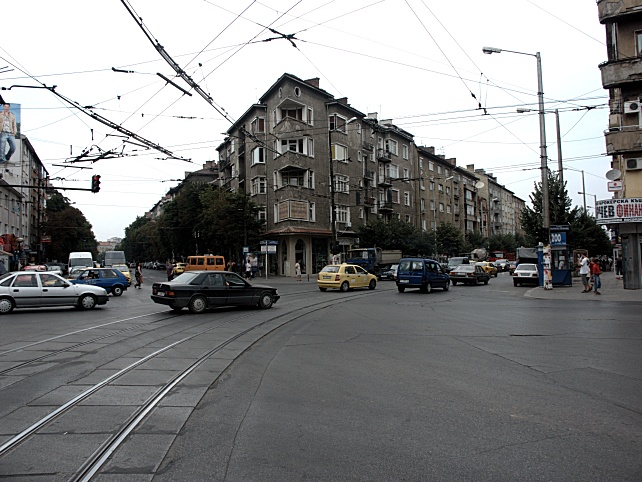 The Five Corners (Pette Kyosheta) in Sofia, Bulgaria